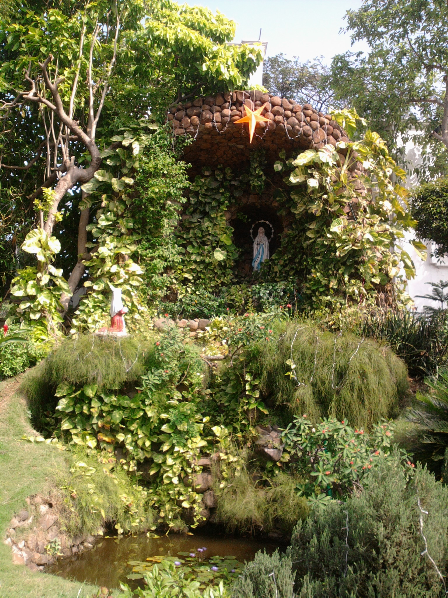 Marian grotto at San Thome Basilica